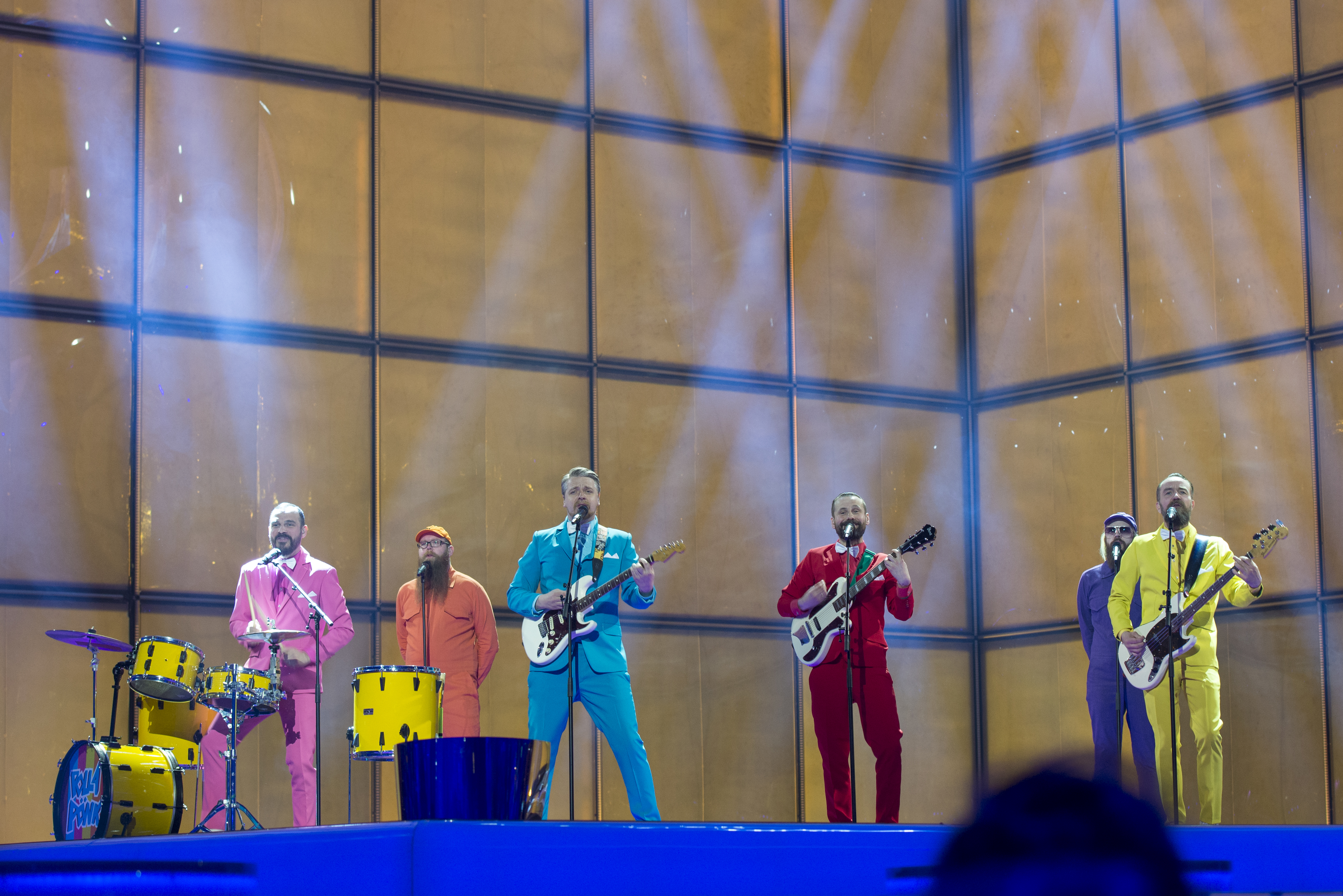 Pollapönk representing Iceland with the song "Enga fordóma" during the first dress rehearsal of the first semi final of the Eurovision Song Contest 2014 Copenhagen. (Help translate this text)